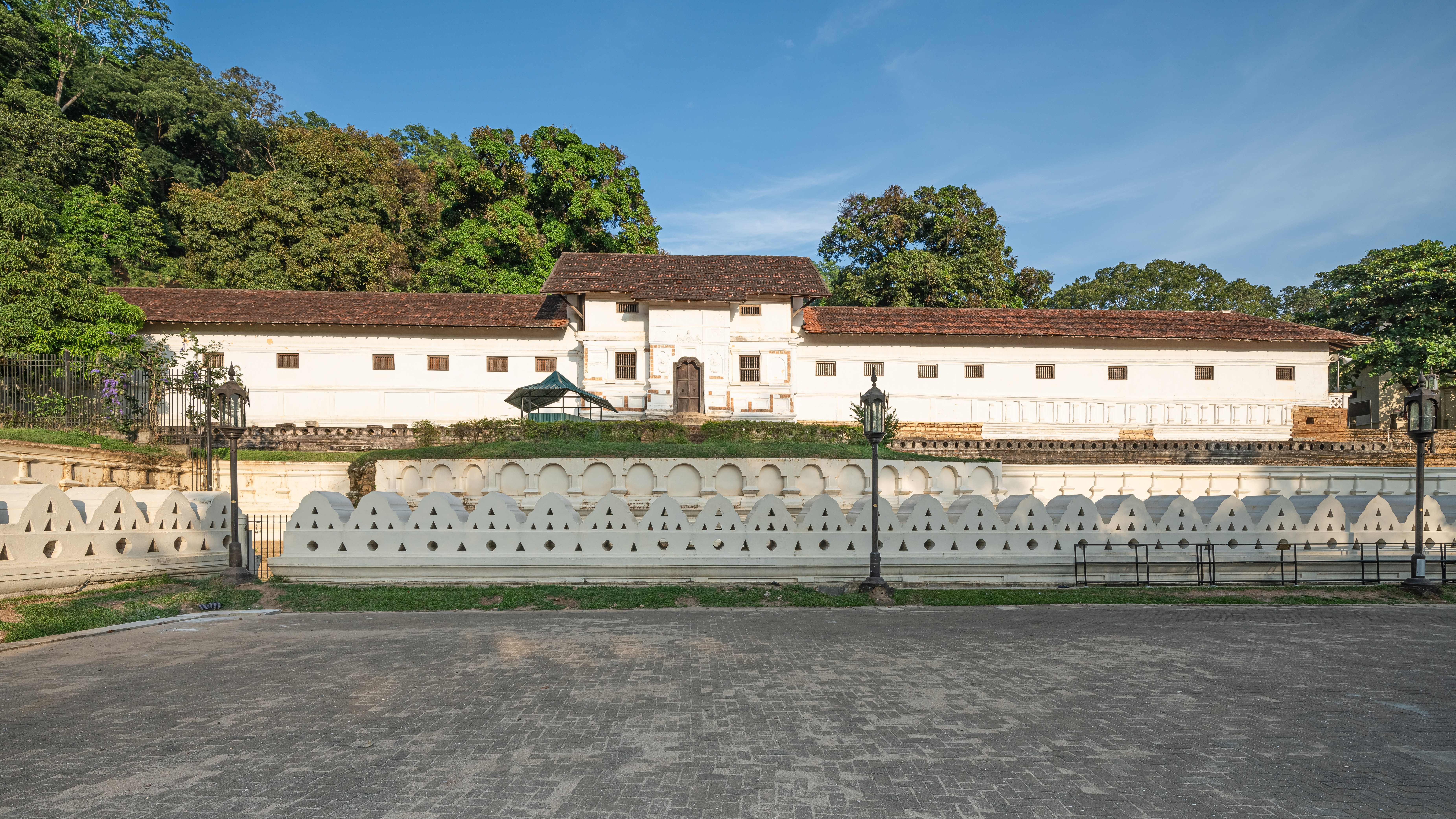 Royal Palace in Kandy, Sri Lanka